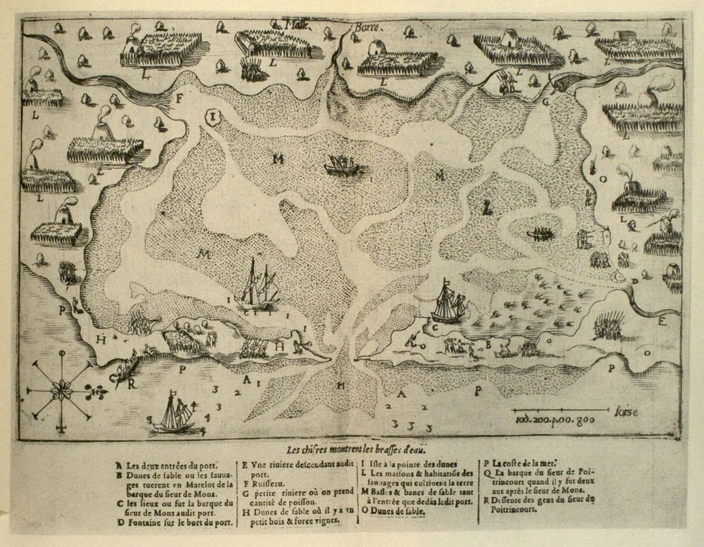 Historic map of Nauset harbour on Cape Cod.